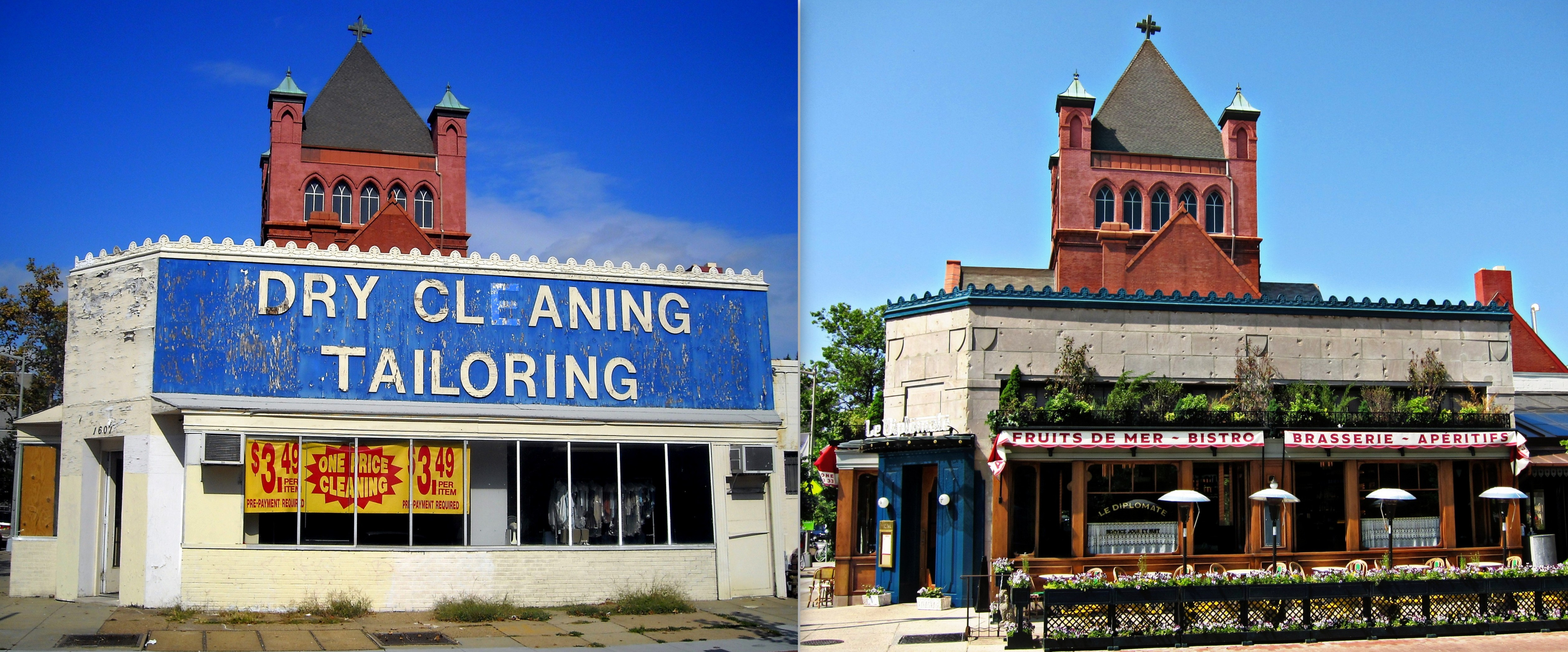 The photo on the left was taken in 2008. The photo on the right was taken in 2013. The commercial building located at 1601 14th Street NW in the Logan Circle neighborhood of Washington, D.C. Previous occupants include Q Street Cleaners, a longtime neighborhood business that closed in 2009. The property now serves as Le Diplomate, a French restaurant. The building is designated as a contributing property to the Greater Fourteenth Street Historic District, listed on the National Register of Historic Places in 1994. The John Wesley African Methodist Episcopal Zion Church tower is in the background.